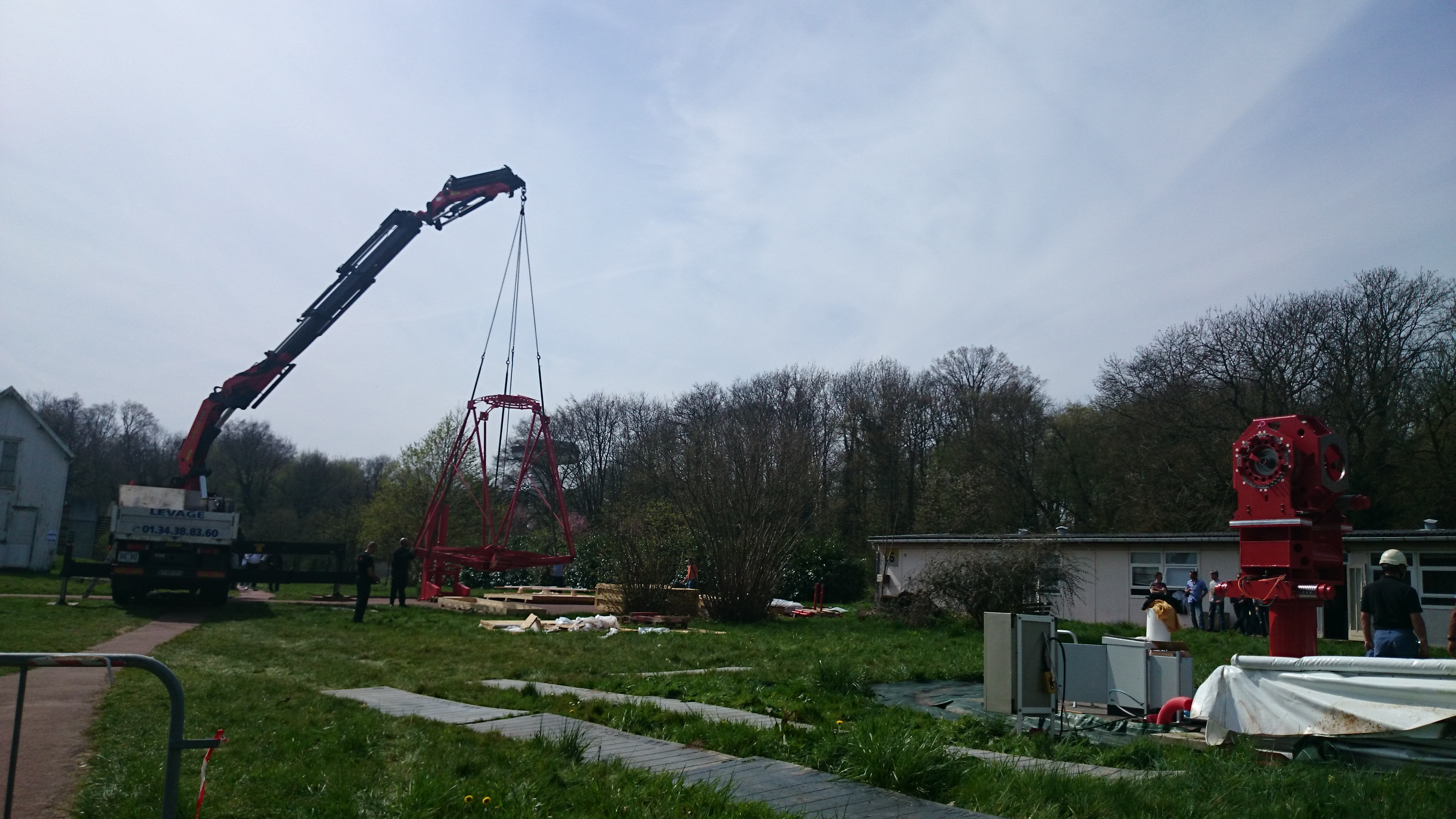 Monture du télescope en cours d'installation à Meudon, Avril 2015